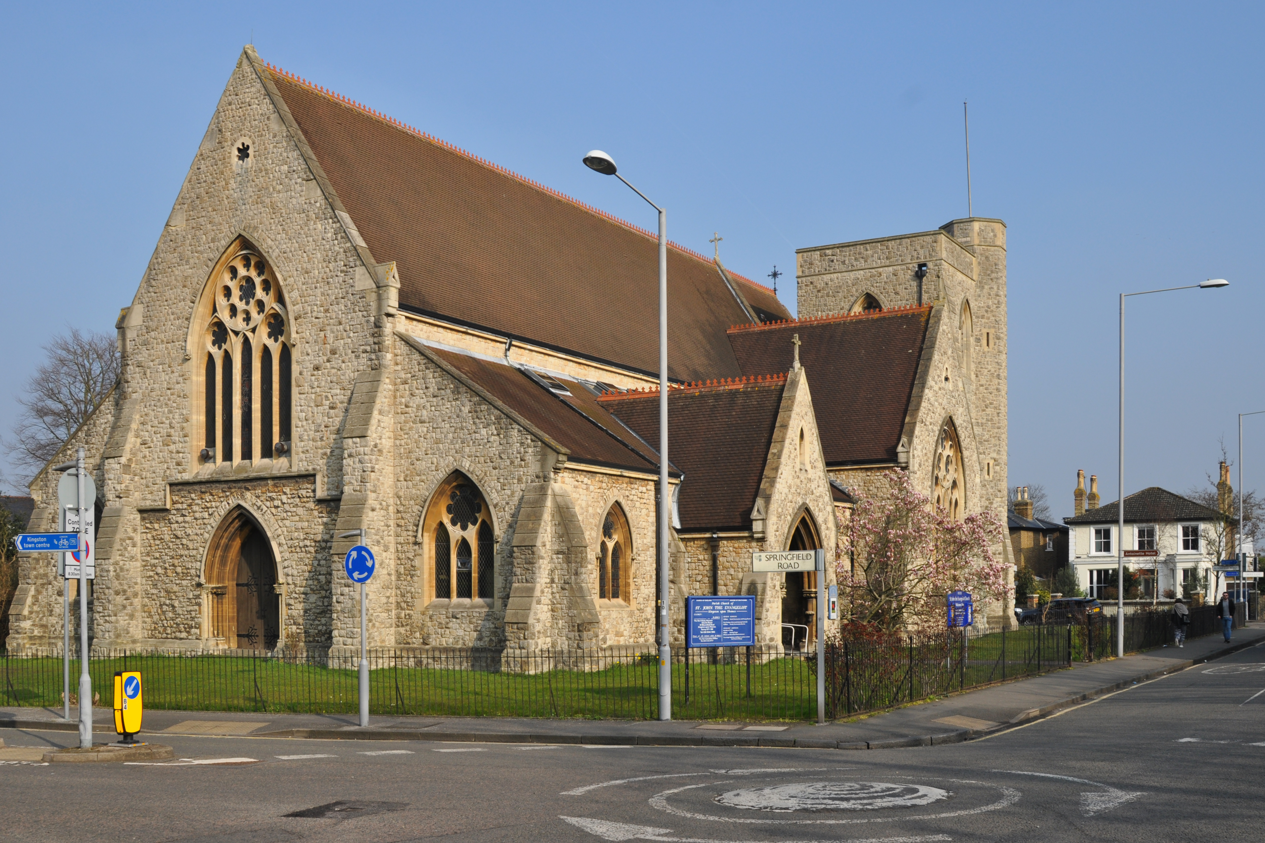 Church Of St John Wikidata has entry Q26587246 with data related to this item.